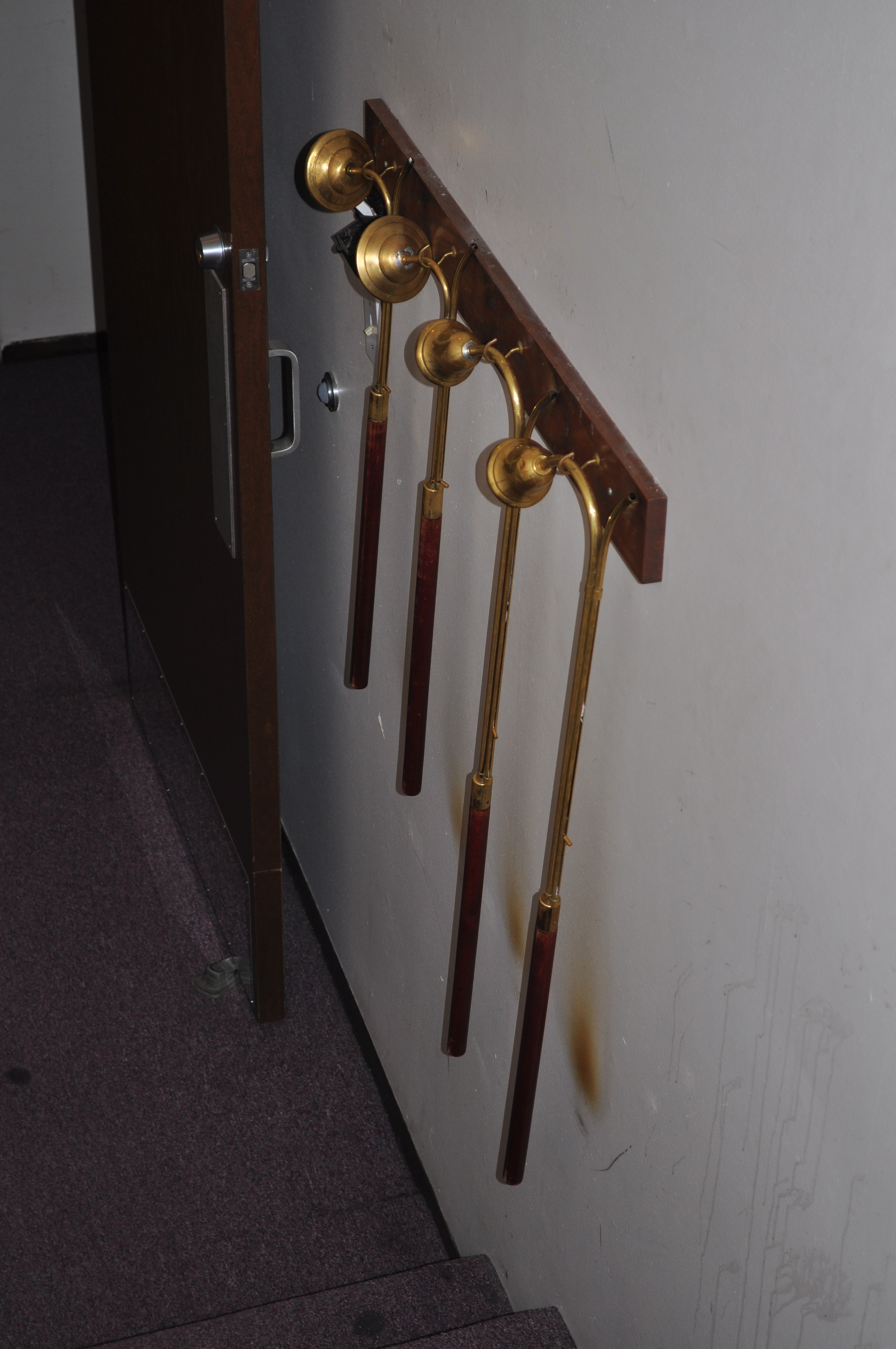 Saint Paul's Episcopal Church, 15 Roy Street, Seattle, Washington.